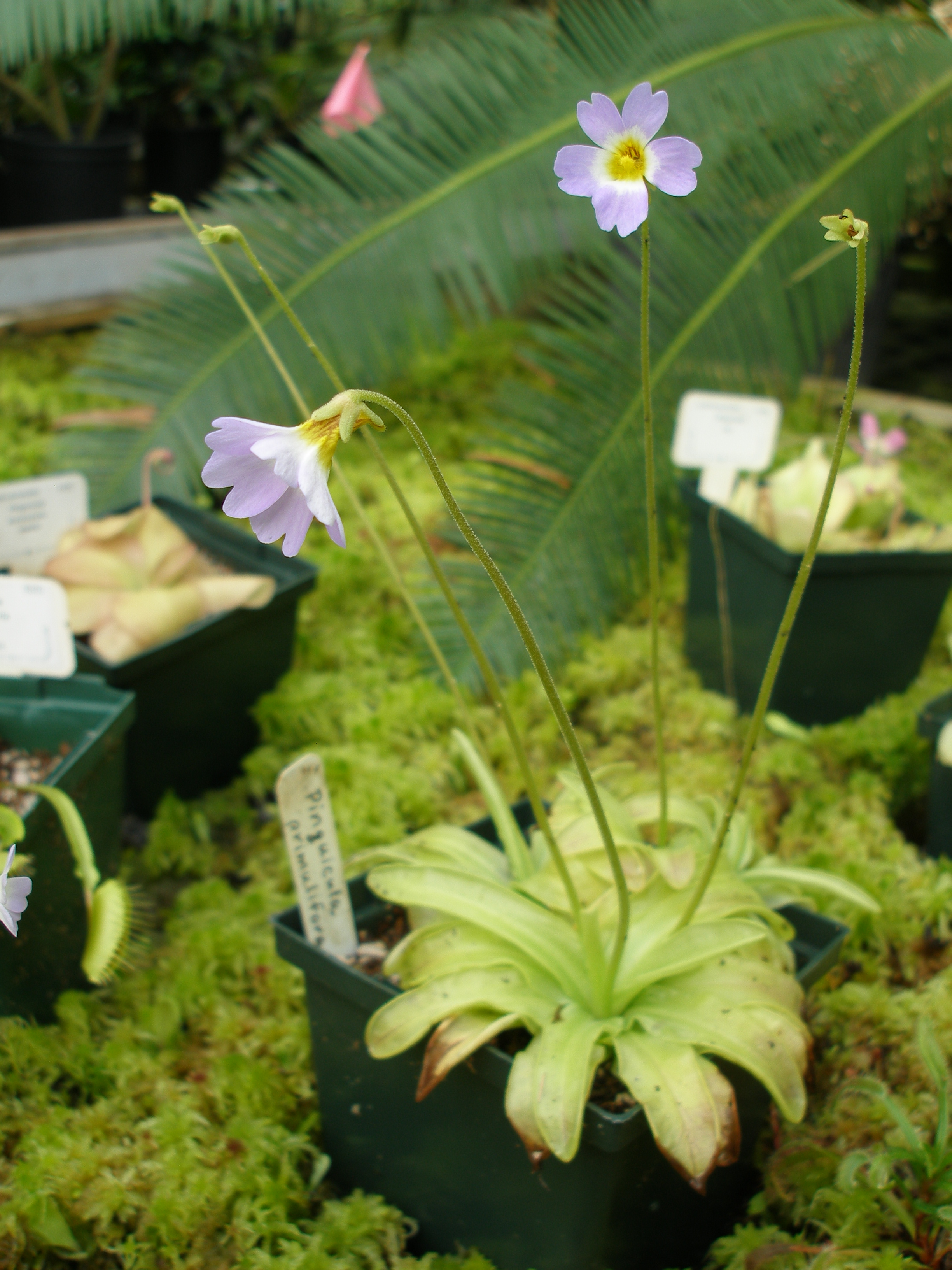 Pinguicula primuliflora at the University of Washington greenhouse collections